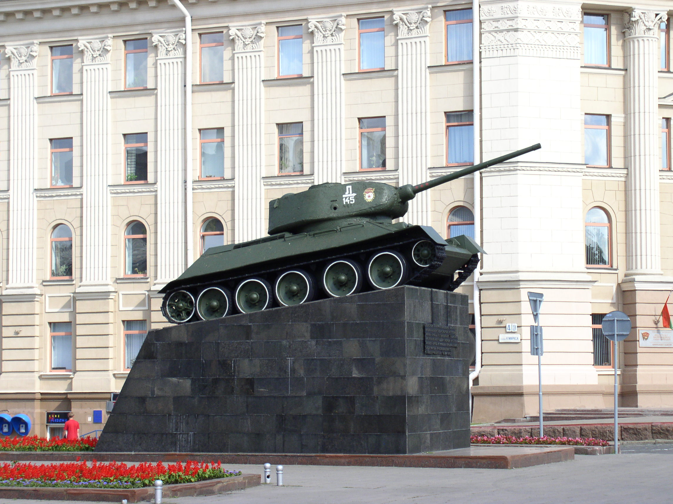 Tank monument, Minsk, Belarus.